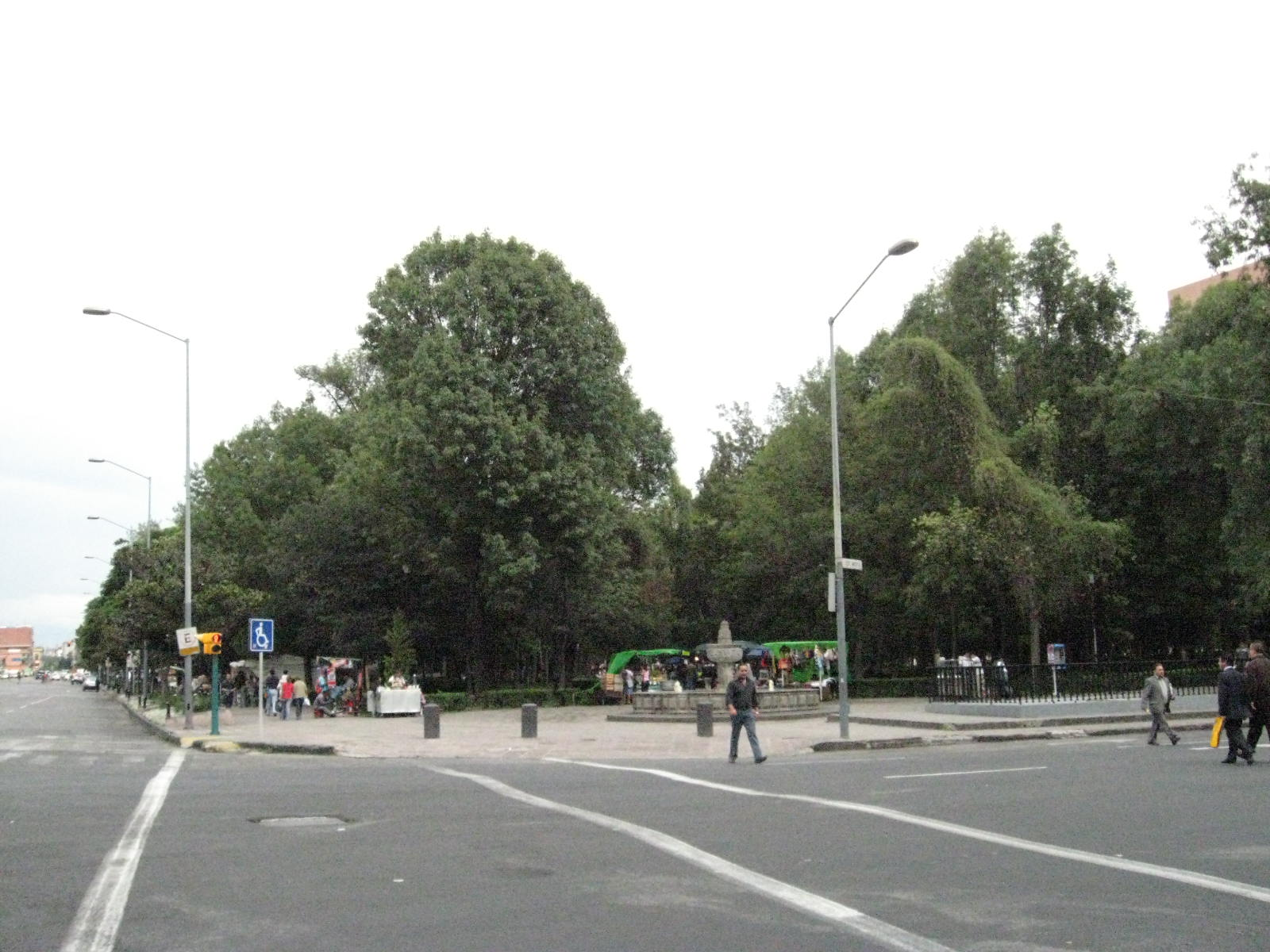 Entrance to Mexico City's Alameda Central(central park) from the northwest. To the left is Hidalgo Street.